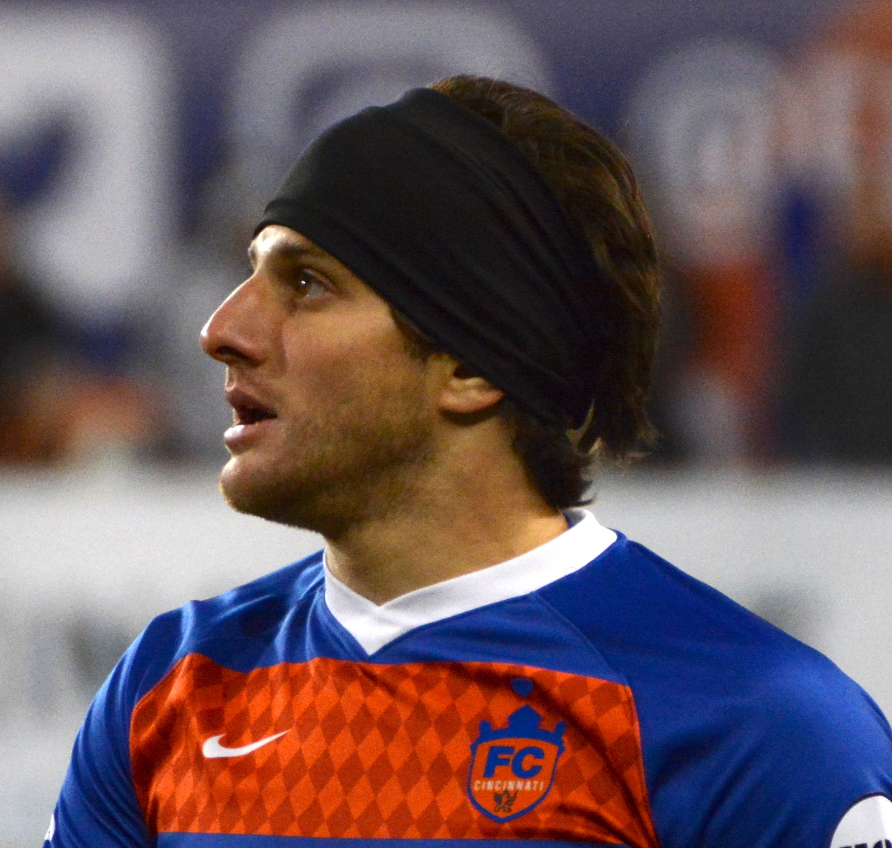 Canadian soccer player Daniel Haber, a forward for FC Cincinnati, faces roughly towards the scoreboard from the opposite side of the pitch. Taken during FC Cincinnati's home opener against Louisville City FC at Nippert Stadium in Cincinnati, USA on April 7, 2018.